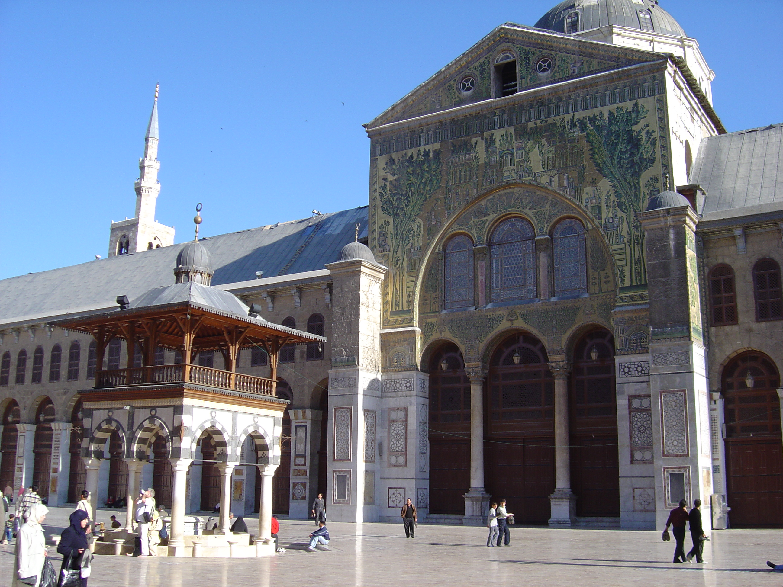 The Great Mosque, Damascus - Syria